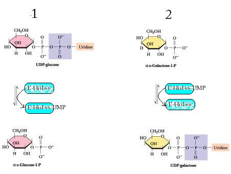 Double-replacement mechanism of GALT